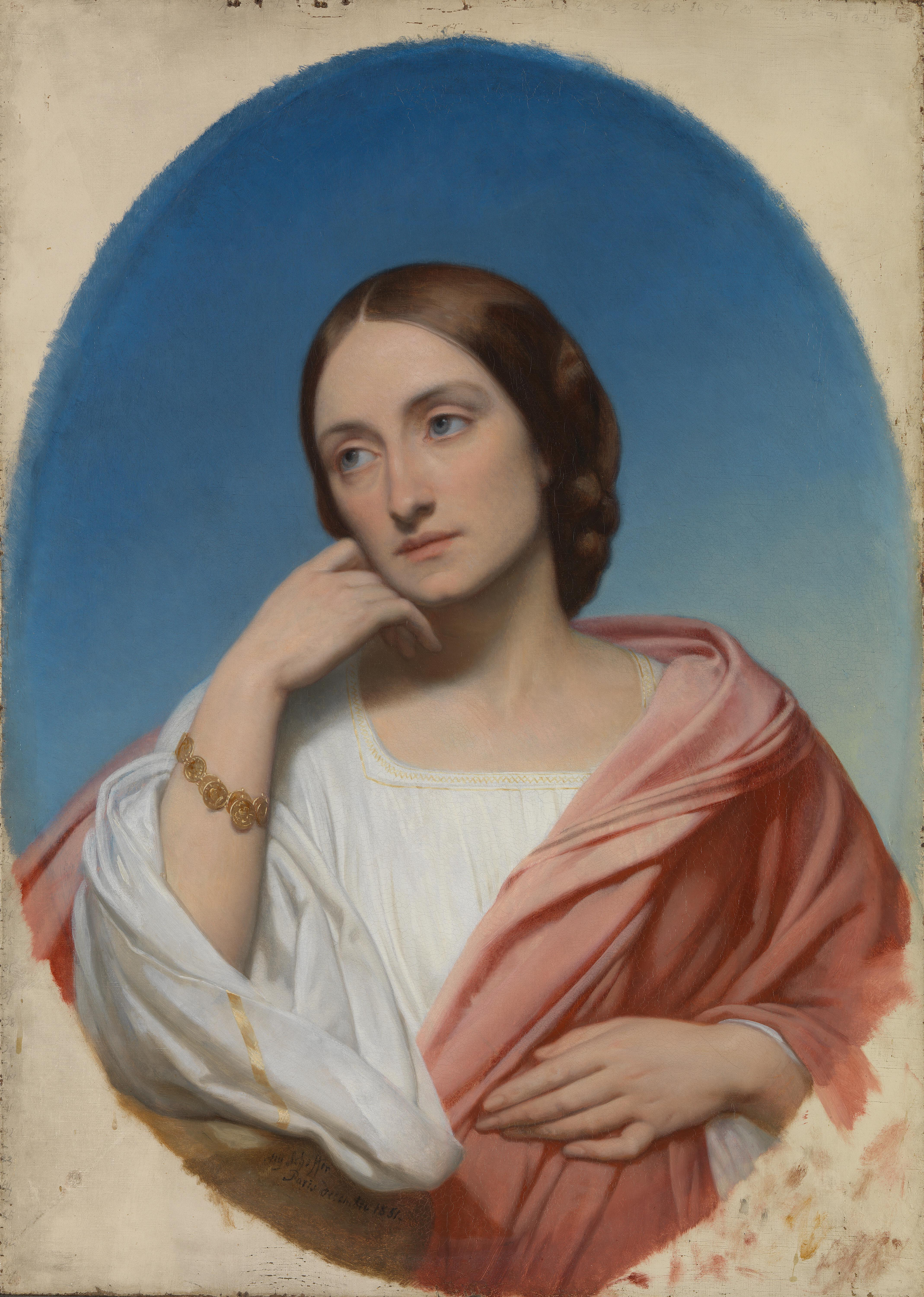 The sitter, Ellen Julia Teed (1822 - 1884), married Robert Hollond, MP for Hastings, in 1840. She was an authoress and philanthropist, and held a salon in Paris which attracted the leading Liberals of the day. She presented Boucher's 'Pan and Syrinx' to the National Gallery in 1880.; Robert Hollond (1808-1877) funded and then took part in establishing a distance ballooning record with Thomas Monck Mason and Charles Green. He later served as a Whig politician representing the constituency of Hastings.